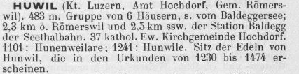 Group of 6 houses s from Baldeggersee